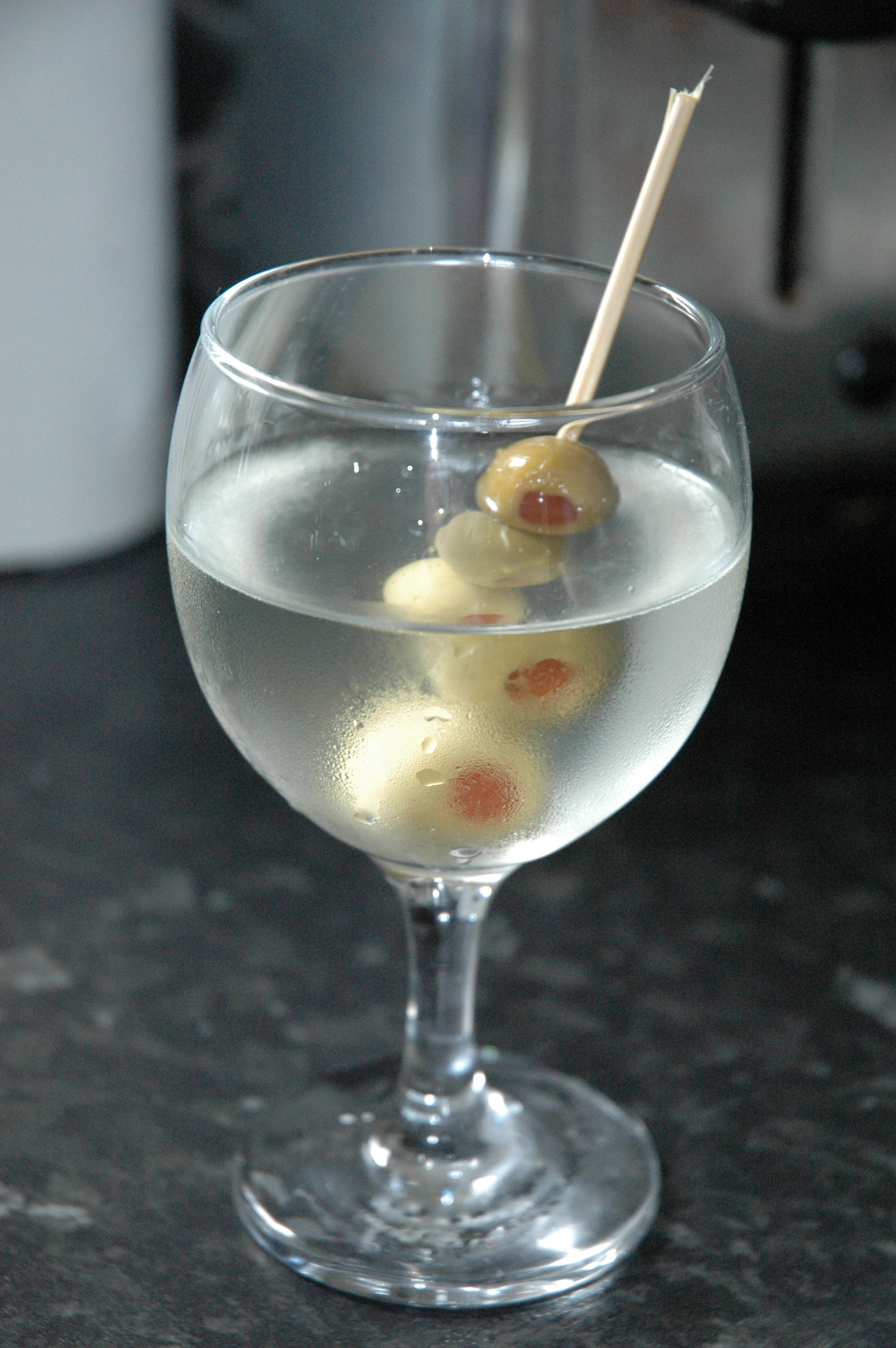 A "dirty martini" made with vermouth